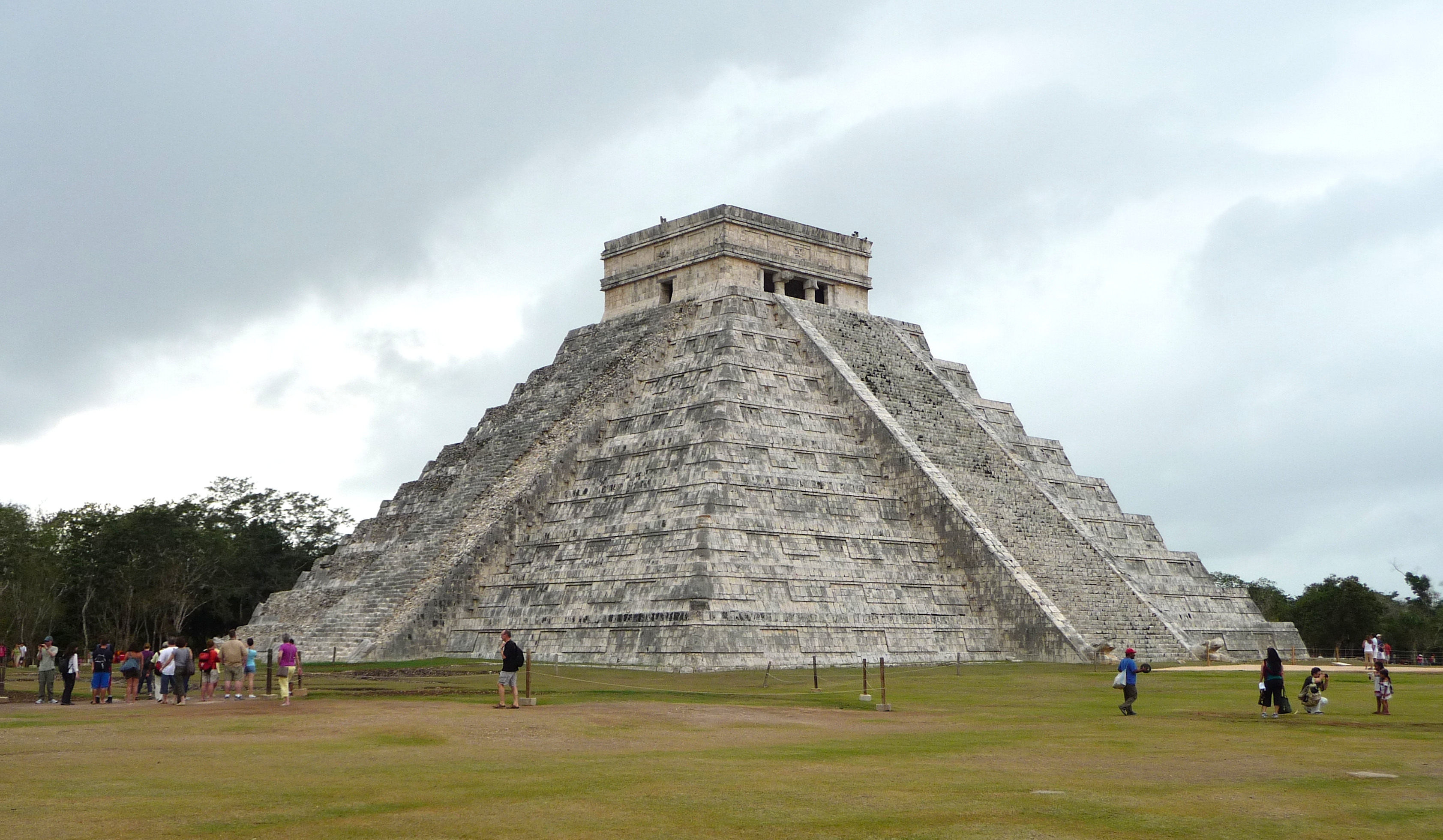 The Kukulkan Pyramid in Chichén Itzá (Yucatán, Mexico).